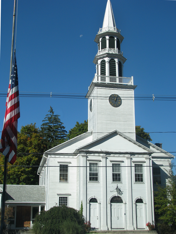 United Methodist Church, Part of Woodbury Historic District No. 1, Both sides of Main St. (U.S. Route 6) for 2 miles (3.2 km), and radiating roads Woodbury